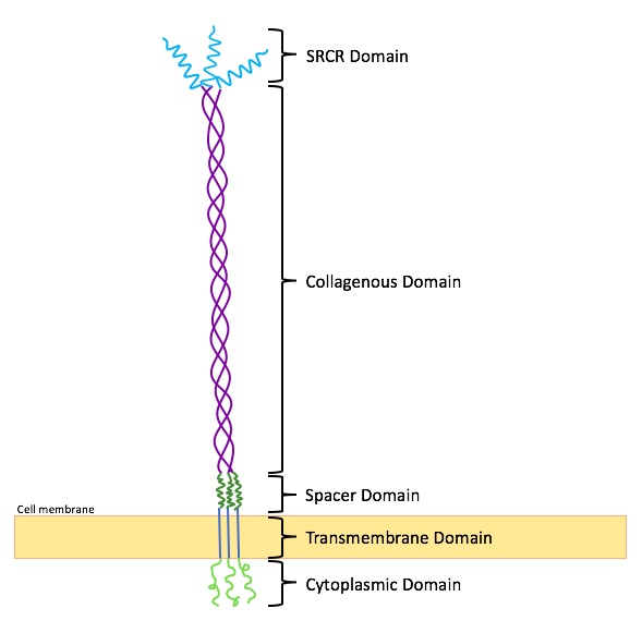 This is an illustration of what the receptor, MARCO, looks like when it is expressed on a cell surface.